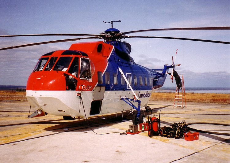 I took this photo of a Canadian Helicopters Sikorsky S-61L (C-GJDR) at CFB Cold Lake in 1992